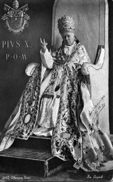 Pius X with papal crown